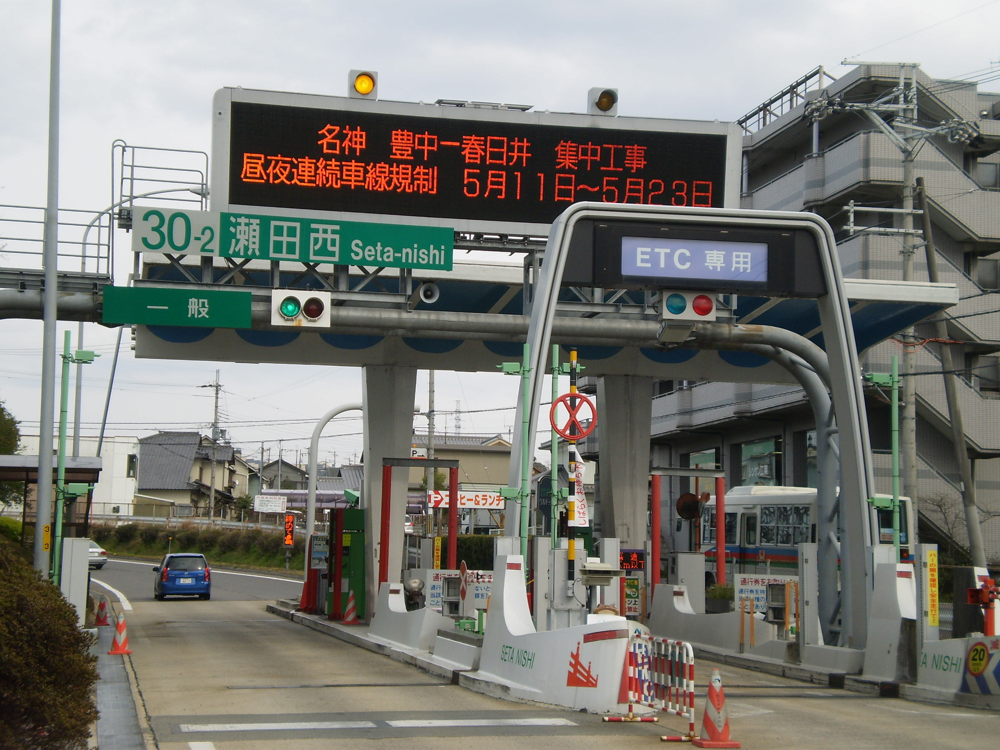 Seta-nishi interchange of Meishin Expressway I took this image at Seta-3chome Otsu City Shiga Pref., Japan.